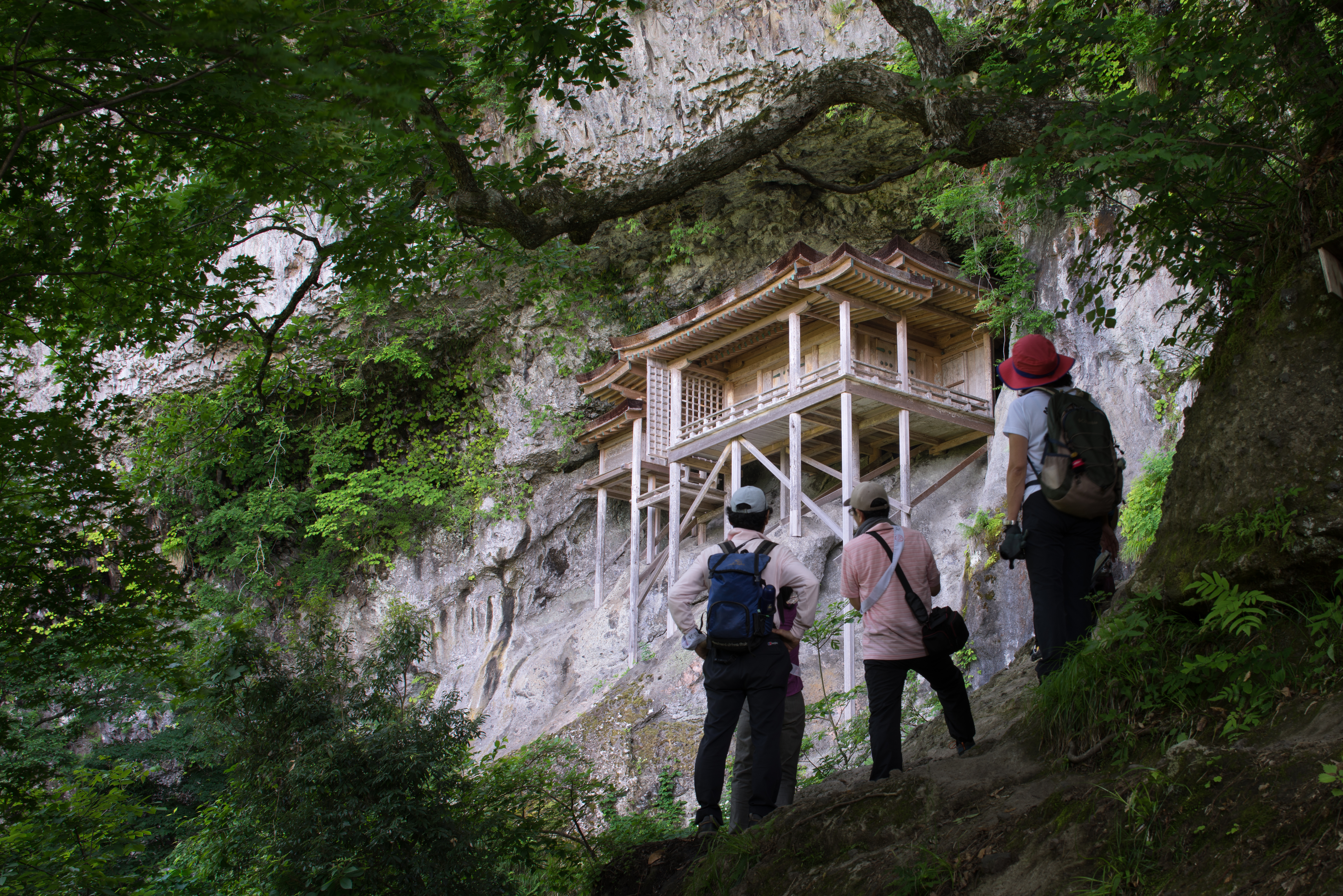 Nageire-dou, Tottori Prefecture